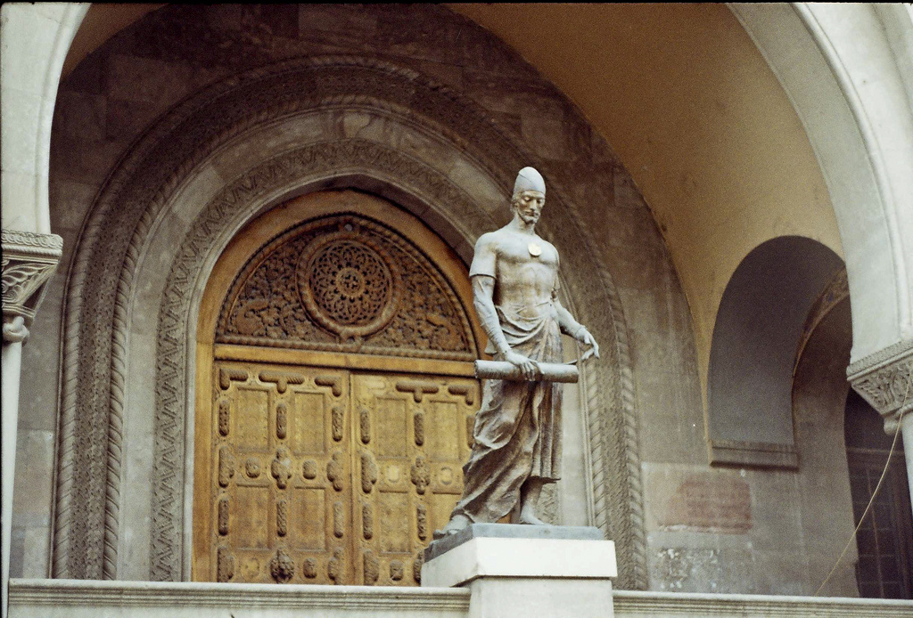 Camera: Zenit ET Lens: Helios 44M 2/58 Film: Kodak ISO 200